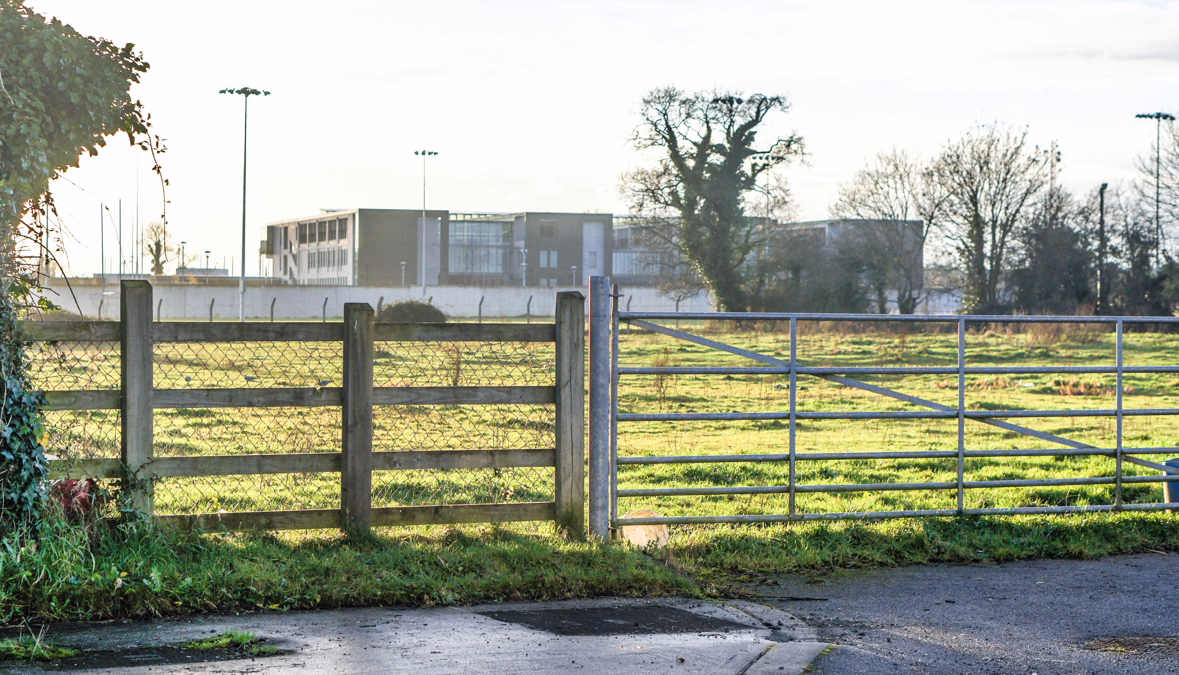 Department of Defence (Ireland) Headquarters, Station Road, Newbridge, Co. Kildare W12 AD93